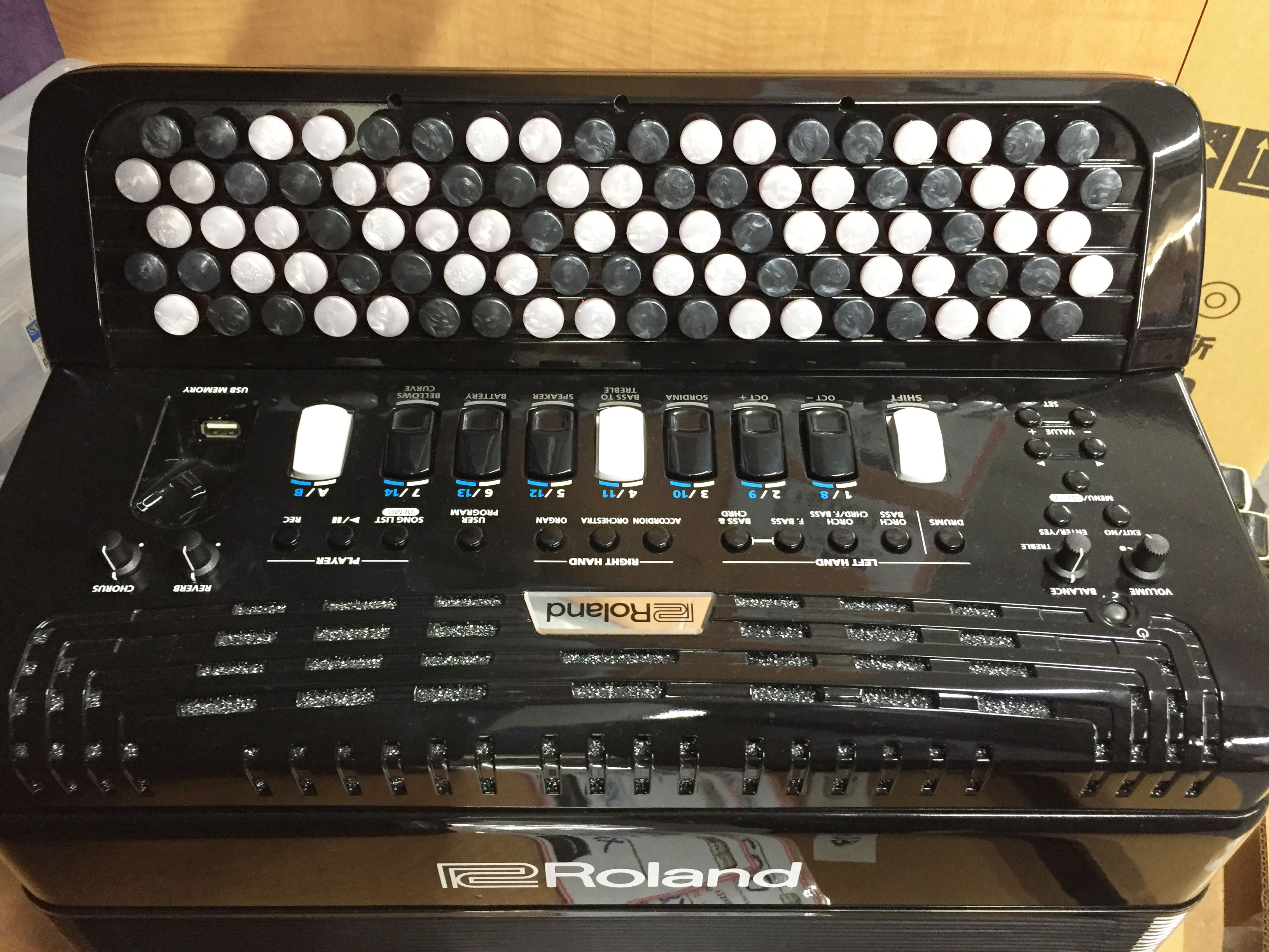 Treble secsion of Roland chromatic button V-accordion．I took this photo at TANIGUCHI GAKKI or TANIGUCHI's Musical Instrument Shop in Tokyo on 15th October 2018.